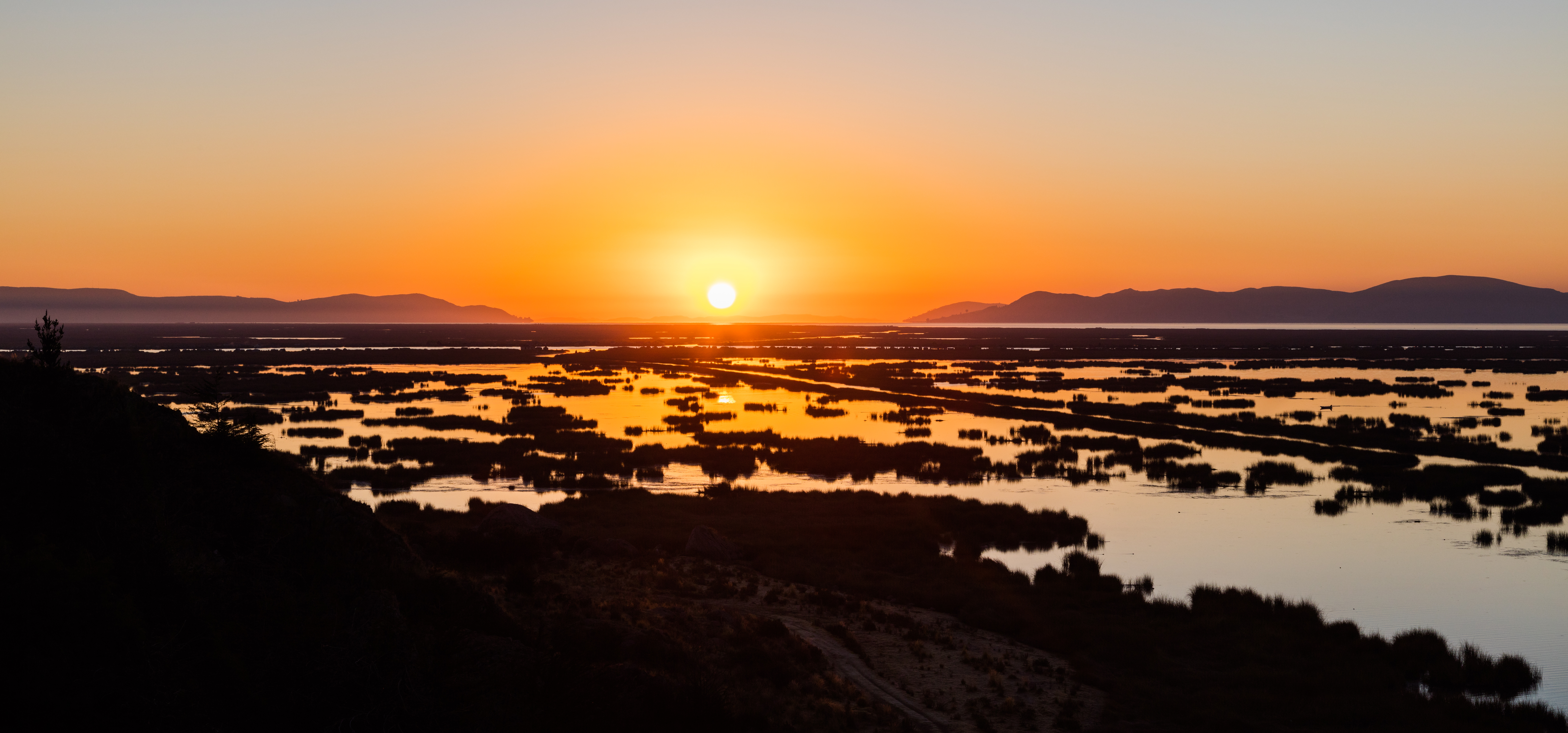 Sunrise over the Titicaca lake, Puno, Peru